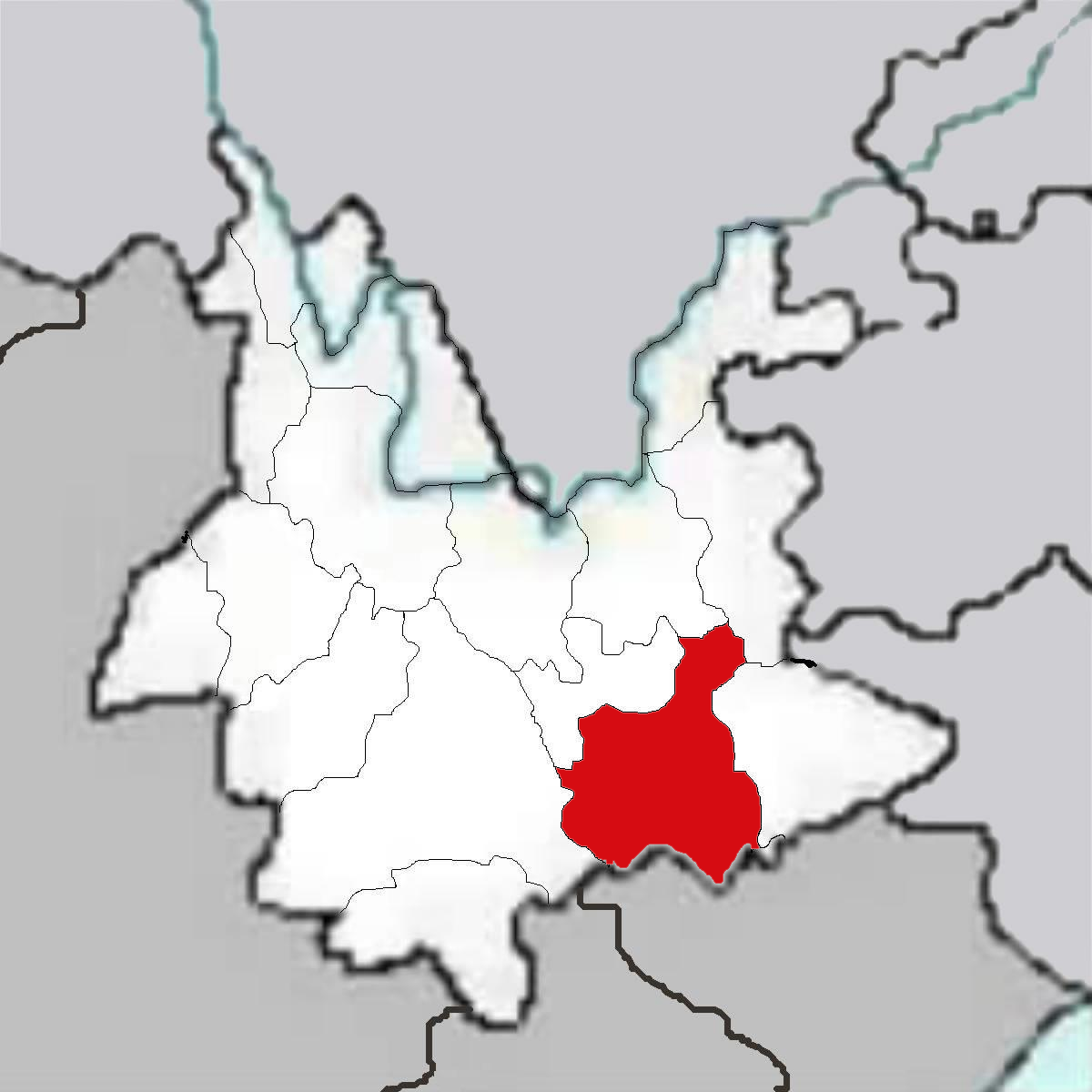 Yunan(云南) Province of China